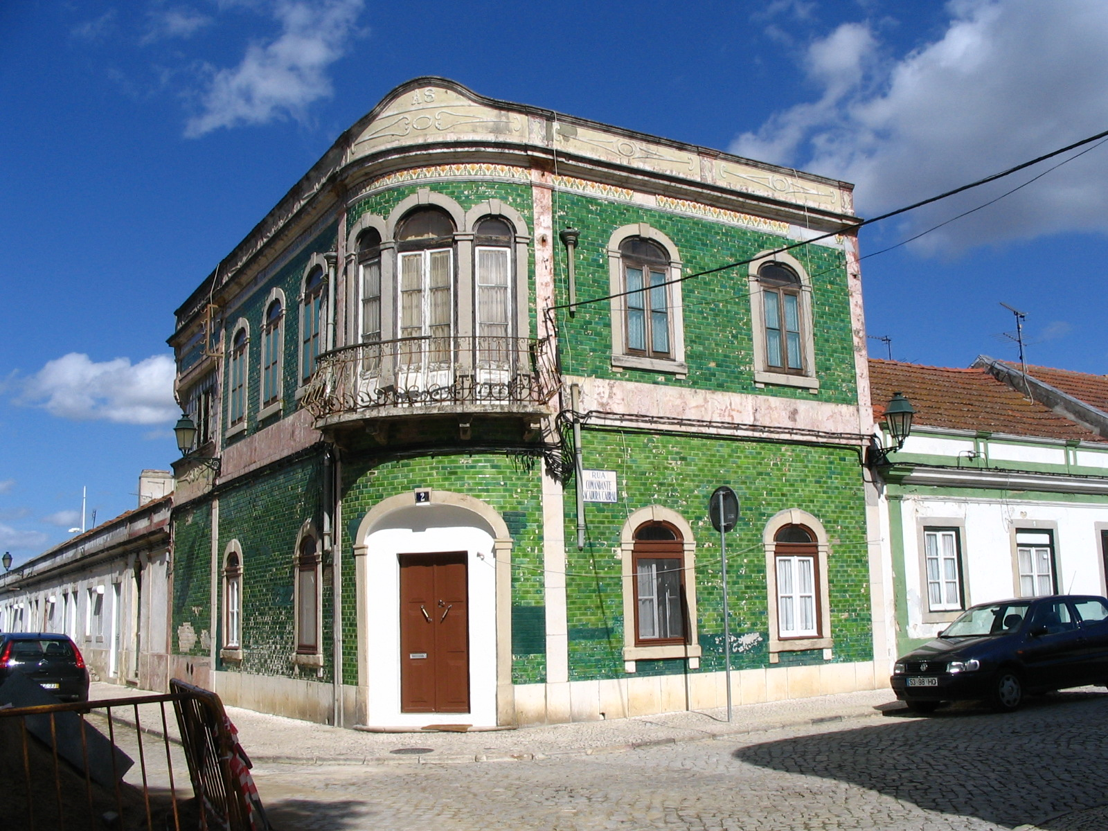 Green-tiled house in Alcochete, Portugal. This is an example of typical architecture of that town.